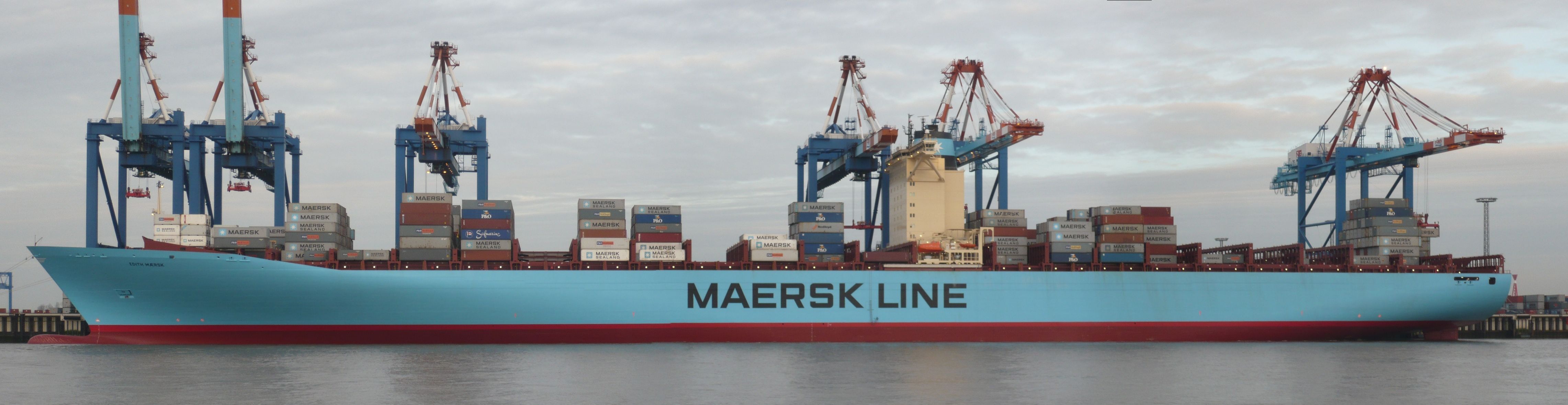 Edith Maersk at NTB Terminal Bremerhaven, Panorama (3 Pictures merged) IMO Number: 9321548 MMSI Number: 220501000 Callsign: OXOR2 Length: 398 m Beam: 56 m Information about Edith Maersk may be found at IMO 9321548.A ship can change name and flag state through time, but the IMO number remains the same through the hull's entire lifetime. As a result, it can be useful to identify a ship by using the IMO number.